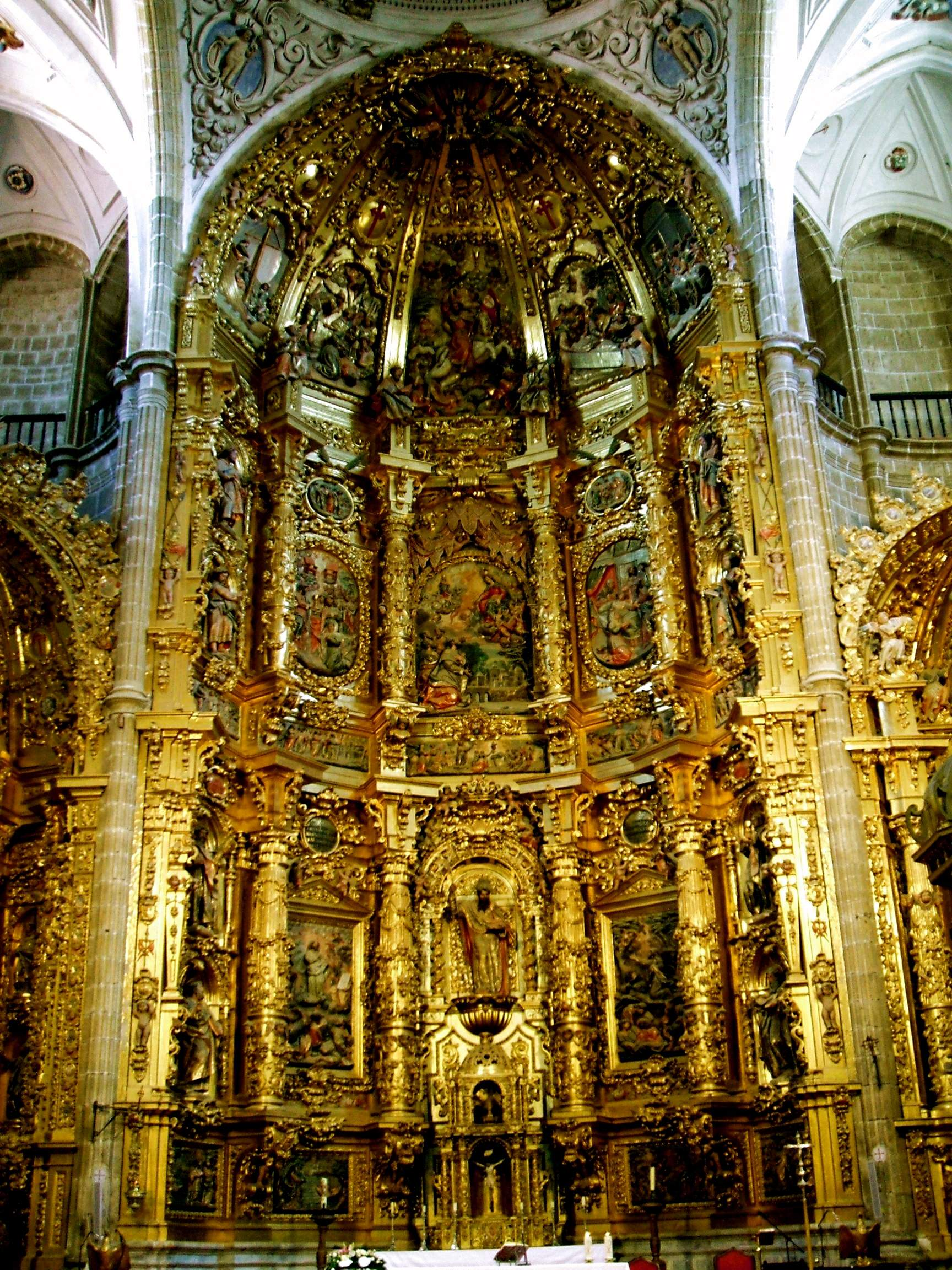 Retablo mayor barroco de la iglesia de Santiago, Medina de Rioseco (Valladolid, Castilla y León, España)